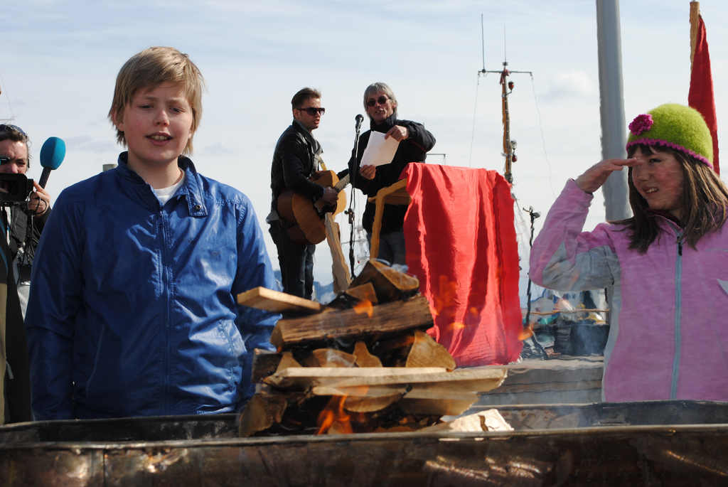 Norwegian environmentalists protest planned oil drillinng outside Loftoten, Vesterålen and Senja 01.05.2010.